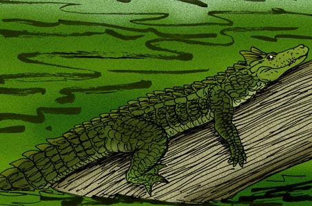 My reconstruction of the Paleocene alligator, Ceratosuchus burdoshi. (C) Stanton F. Fink